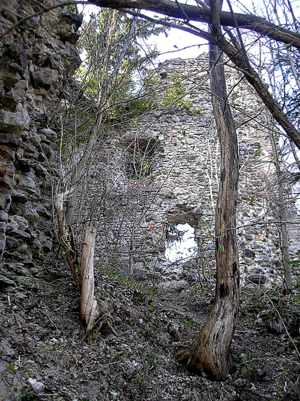 Rettenberg (Vorderburg) castle (Landkreis Oberallgäu, Bavaria, Germany). The central castle, view from the east